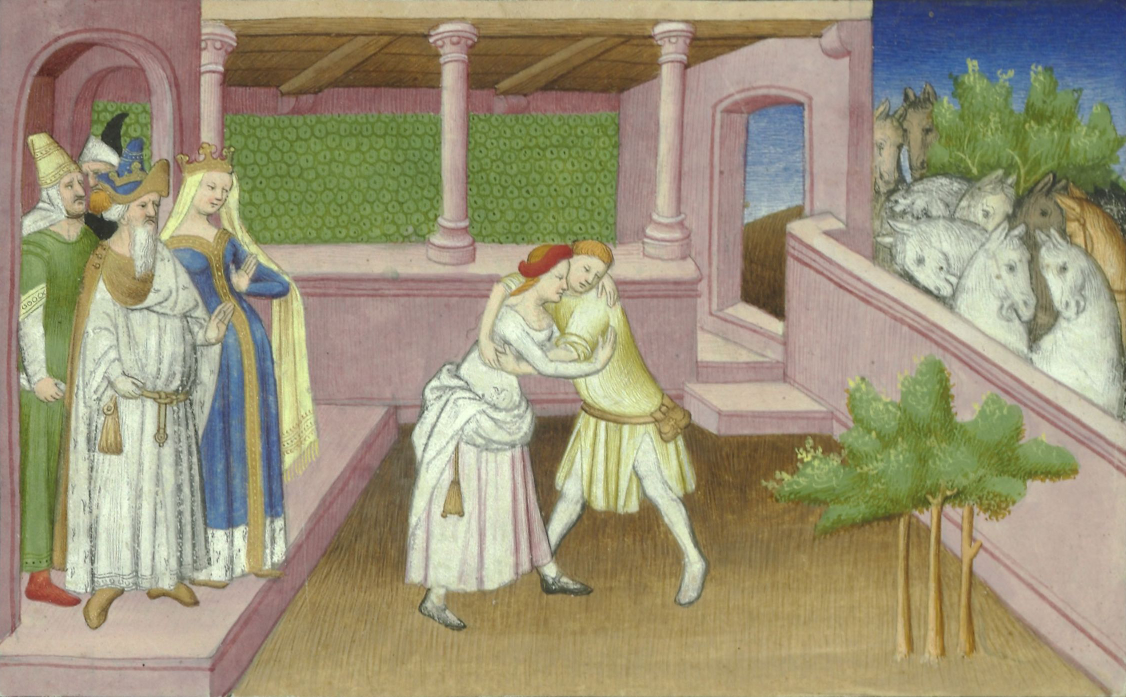 Qutulun, daughter of Qaidu. Now you must know that King Caidu had a daughter whose name was AIJARUC, which in the Tartar is as much as to say "The Bright Moon." This damsel was very beautiful, but also so strong and brave that in all her father's realm there was no man who could outdo her in feats of strength. In all trials she showed greater strength than any man of them. Her father often desired to give her in marriage, but she would none of it. She vowed she would never marry till she found a man who could vanquish her in every trial; him she would wed and none else. And when her father saw how resolute she was, he gave a formal consent in their fashion, that she should marry whom she list and when she list. The lady was so tall and muscular, so stout and shapely withal, that she was almost like a giantess. She had distributed her challenges over all the kingdoms, declaring that whosoever should come to try a fall with her, it should be on these conditions, viz., that if she vanquished him she should win from him 100 horses, and if he vanquished her he should win her to wife. Hence many a noble youth had come to try his strength against her, but she beat them all; and in this way she had won more than 10,000 horses. The Travels of Marco Polo translated by Henry Yule.